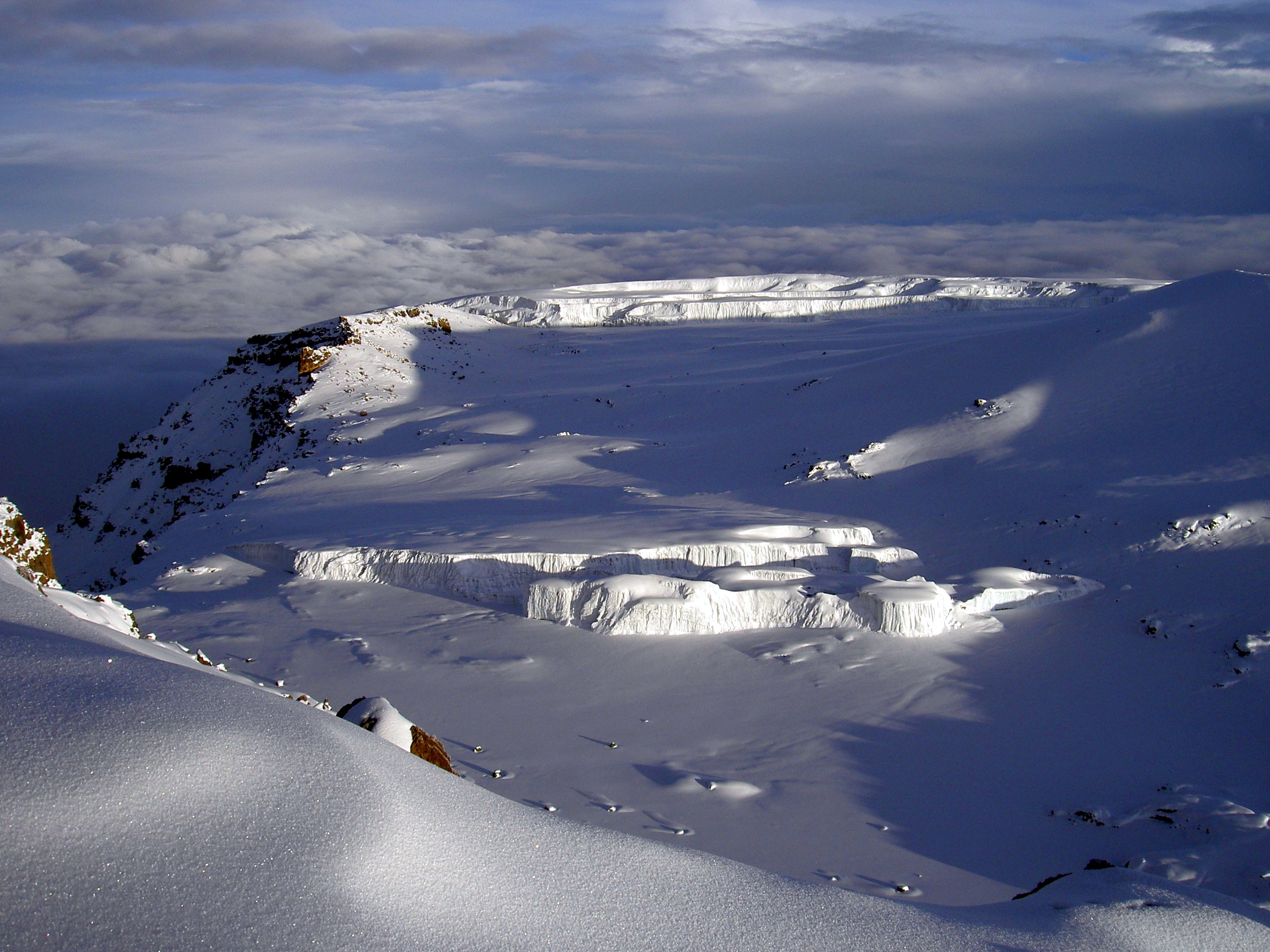 The Furtwängler Glacier is located near the summit of Mount Kilimanjaro in Tanzania. Furtwängler Glacier is a small remnant of an enormous icecap which once crowned the summit of Mount Kilimanjaro.